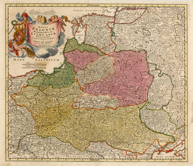 author: Johann Baptiste Homman (1664-1724), source: book "Regni Poloniae Magnique Ducatus Lithuaniae. Nova et exacta tabula", issued in 1739, description: map of Kingdom of Poland and Grand Duchy of Lithuania made in 1720/Nuremberg